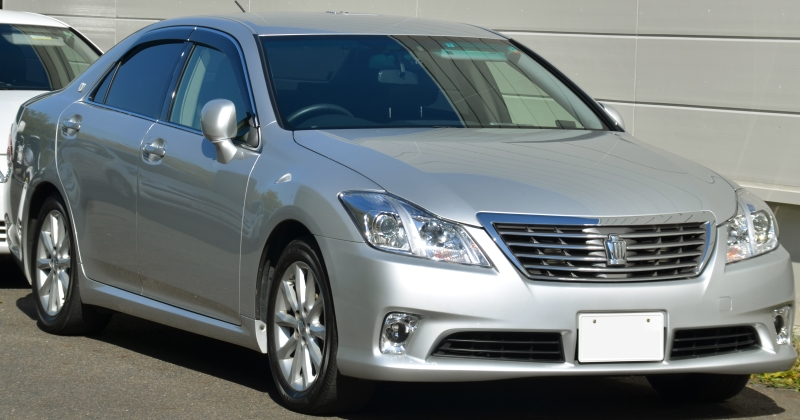 Toyota Crown unmarked car